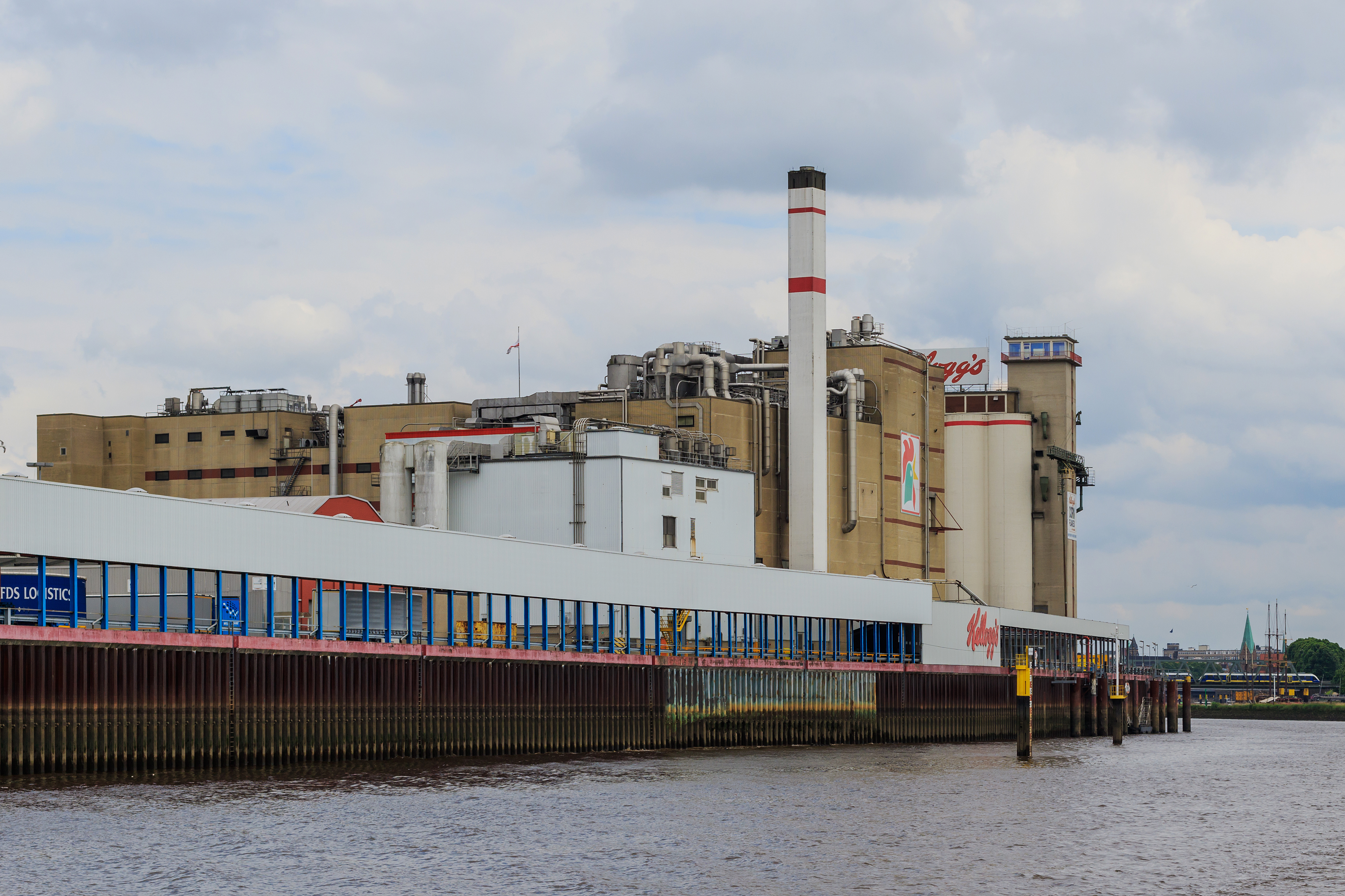 Kellogg's factory at Weser River in Bremen, Germany